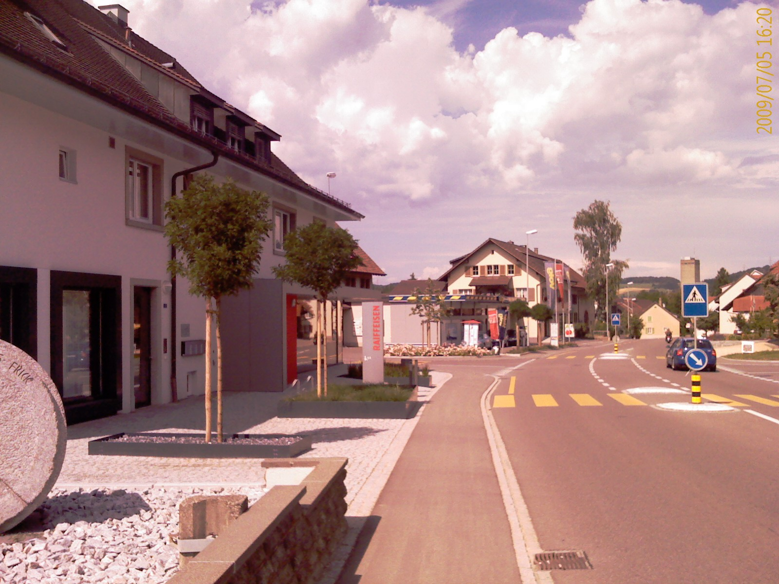 Gipf-Oberfrick, canton of Aargau, SwitzerlandEsperanto: Gipf-Oberfrick, Kantono Argovio, Svislando